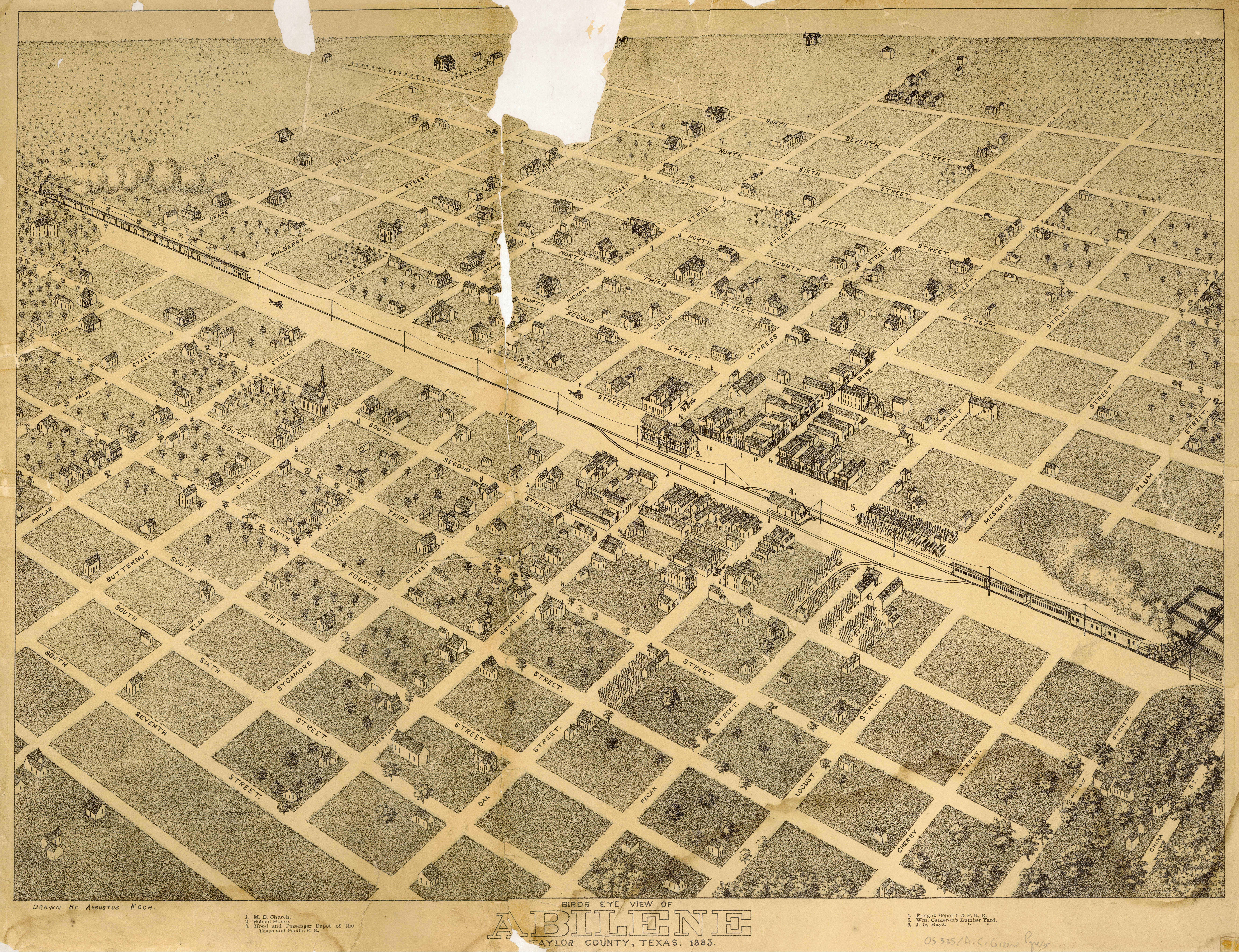 Abilene, Texas in 1883. Birdrsquos Eye View of Abilene, Taylor County, Texas. 1883, 1883. Toned lithograph, 16 x 22.4 in. Lithographer unknown. Courtesy of Special Collections, The University of Texas at Arlington Libraries.